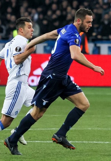 Stefan de Vrij